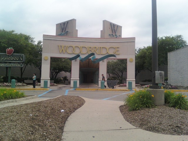 The southwest entrance facade of Woodbridge Mall.